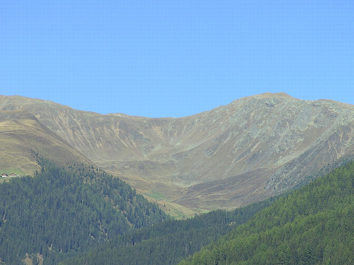 Rock glaciers in the valley of Gsies.